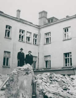 Bombing of Sofia in World War II